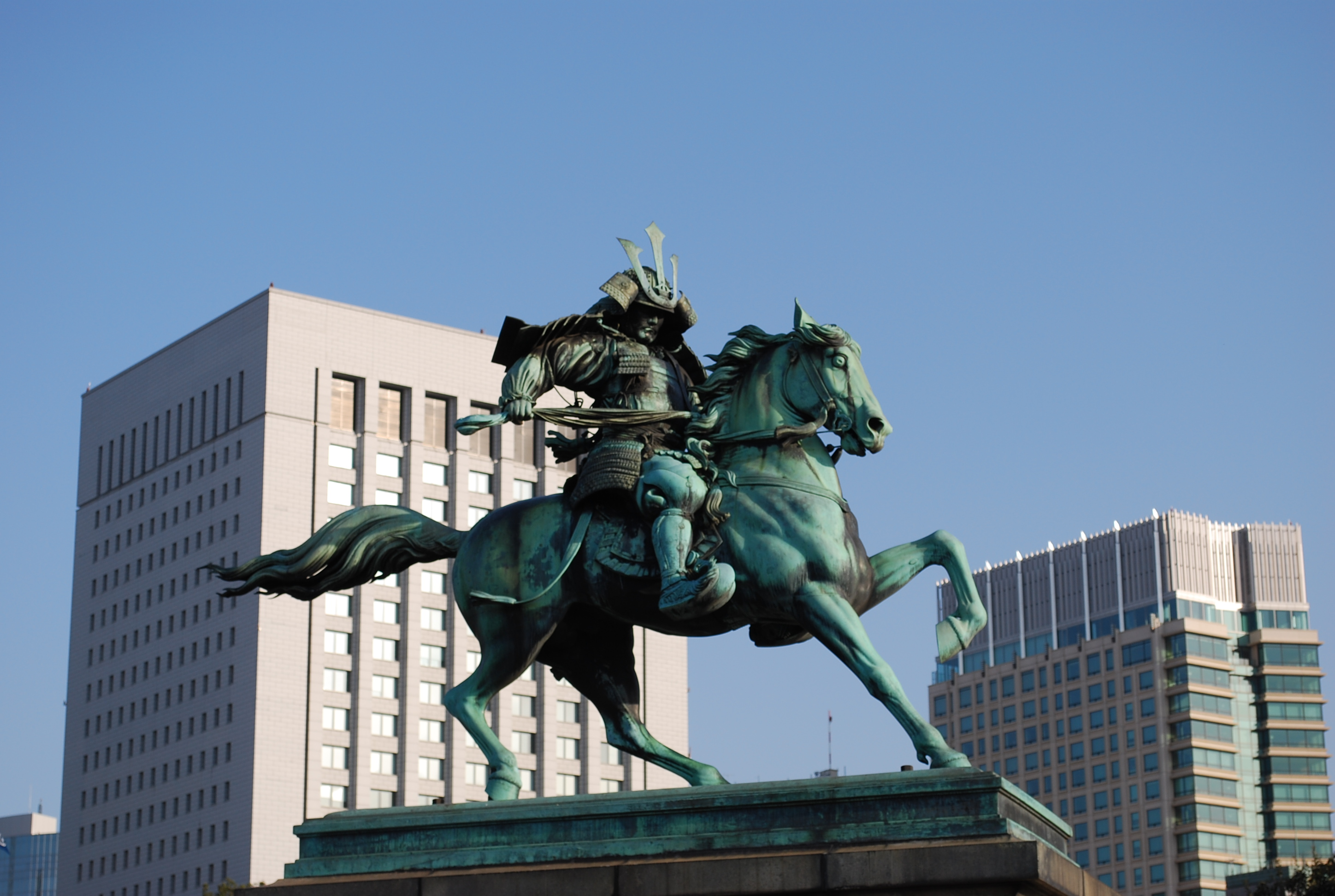 Statue of Kusunoki Masahige infront of the Tokyo Imperial Palace.